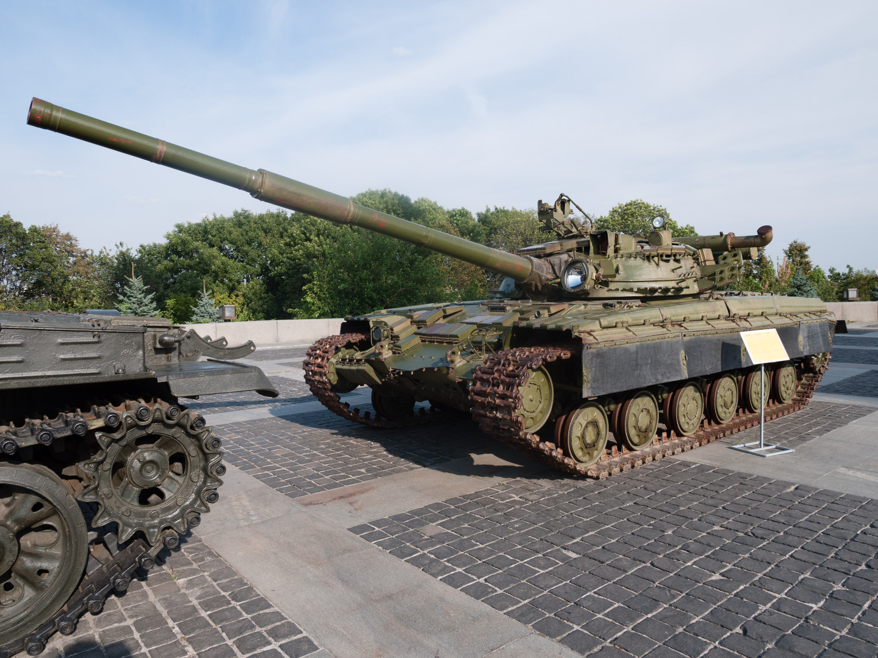 T-64BV (searchlight-number 6) view